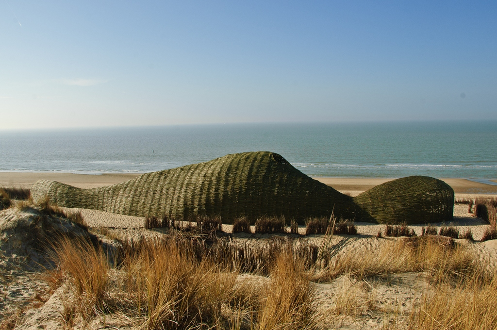 Sandworm. Marco Casagrande. Willow. Beaufort04 Triennial, Wenduine, Belgium. 2012. Photo: Nikita Wu